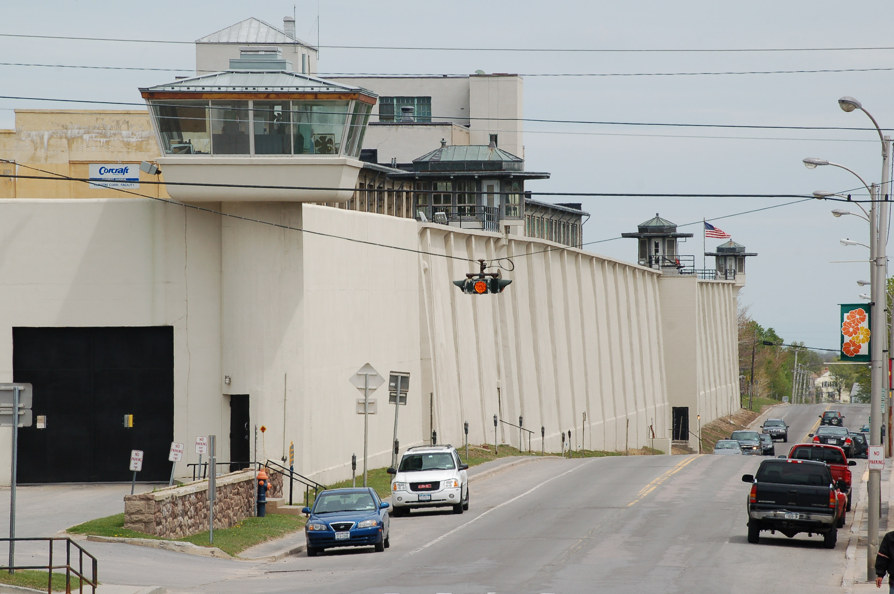 Clinton correctional facility, outer perimeter as seen from Cook Street, May 2007.